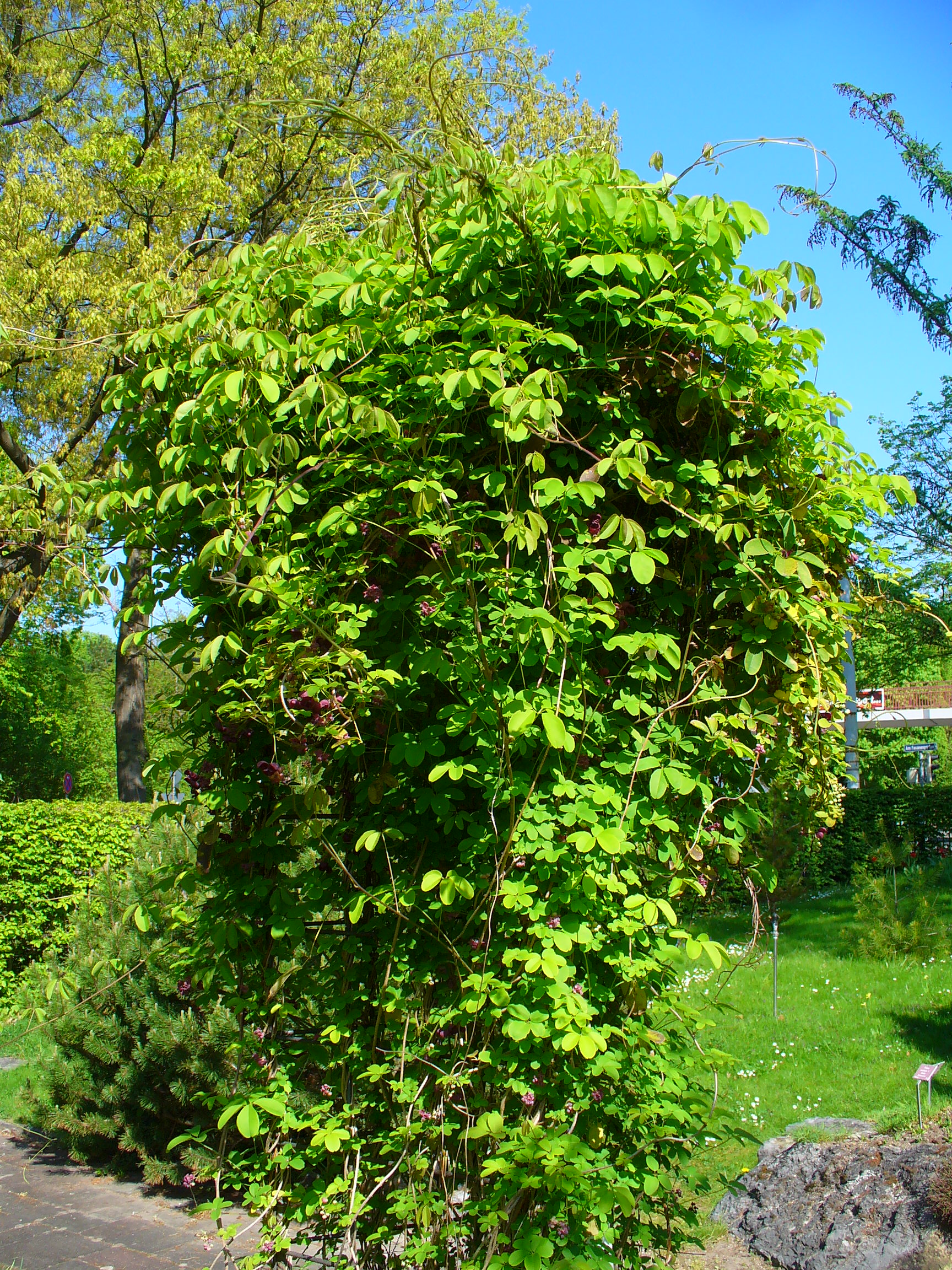 Chocolate Vine; Habitus; Botanical Garden Karlsruhe Institute of Technology, Karlsruhe, Germany.